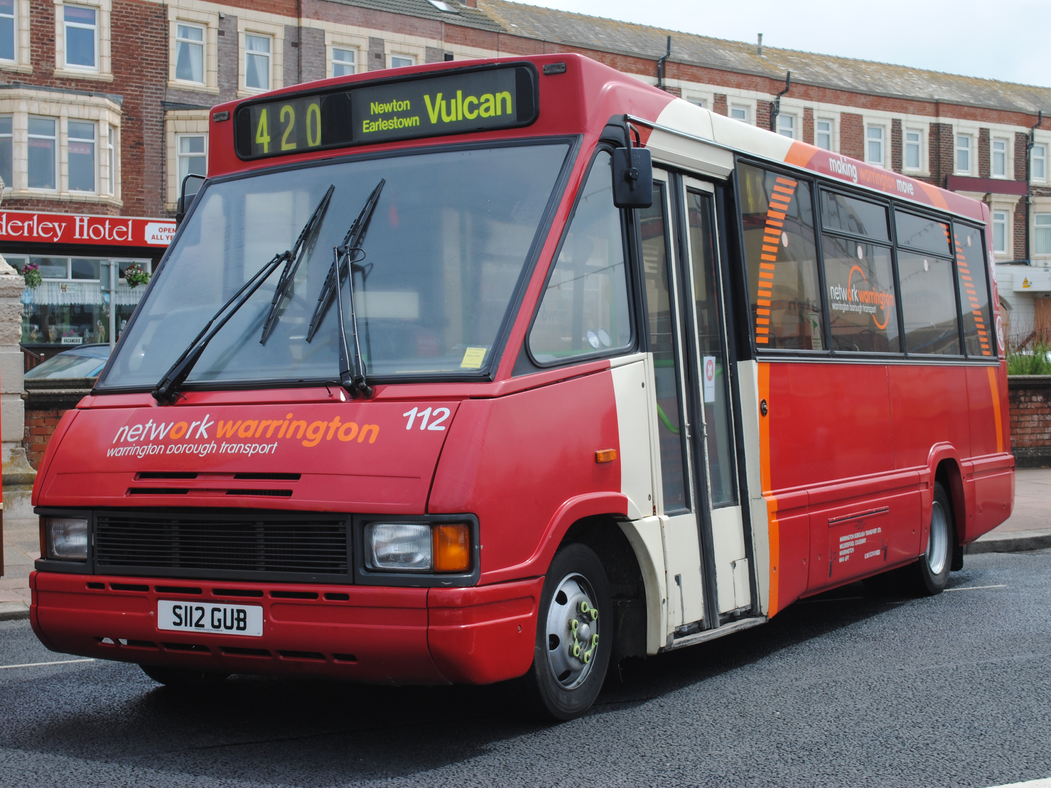 Optare Metrorider MR35. seen here at Totally Transport 2013 in Blackpool